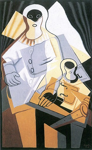 Painting by Juan Gris: picolot (1921).